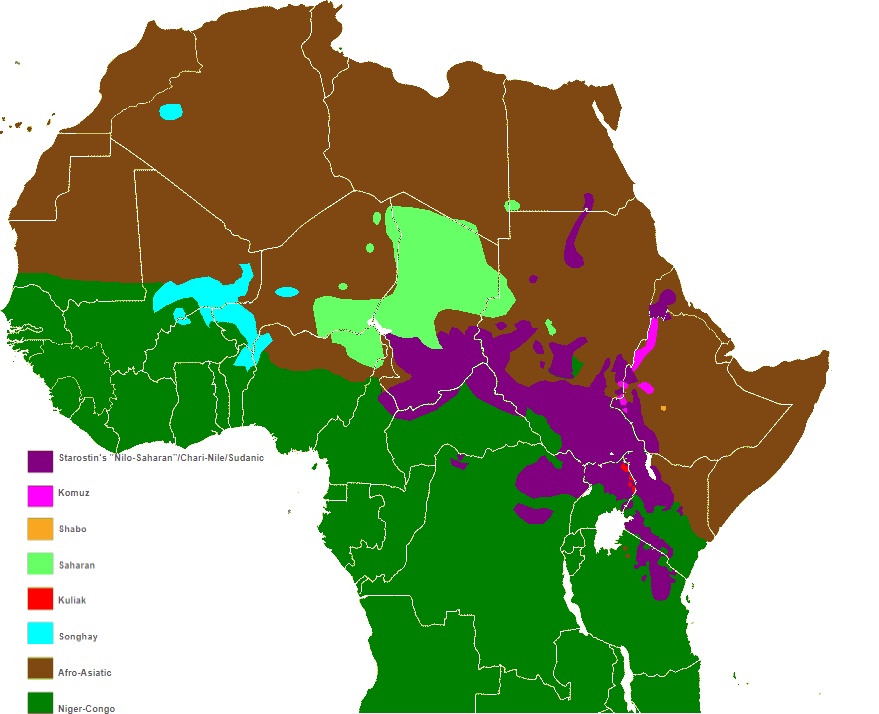 Language Families of Africa North of the Equator. Nilo-Saharan is split into several families based on Starostin (2016). Language isolates are not included, apart from Shabo